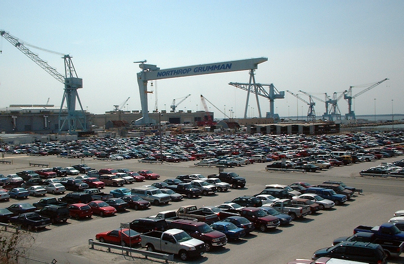 North Yard crane, Northrop Grumman Newport News (NGNN), formerly called Newport News Shipbuilding and Drydock Company (NNS&DD or simply NNS)